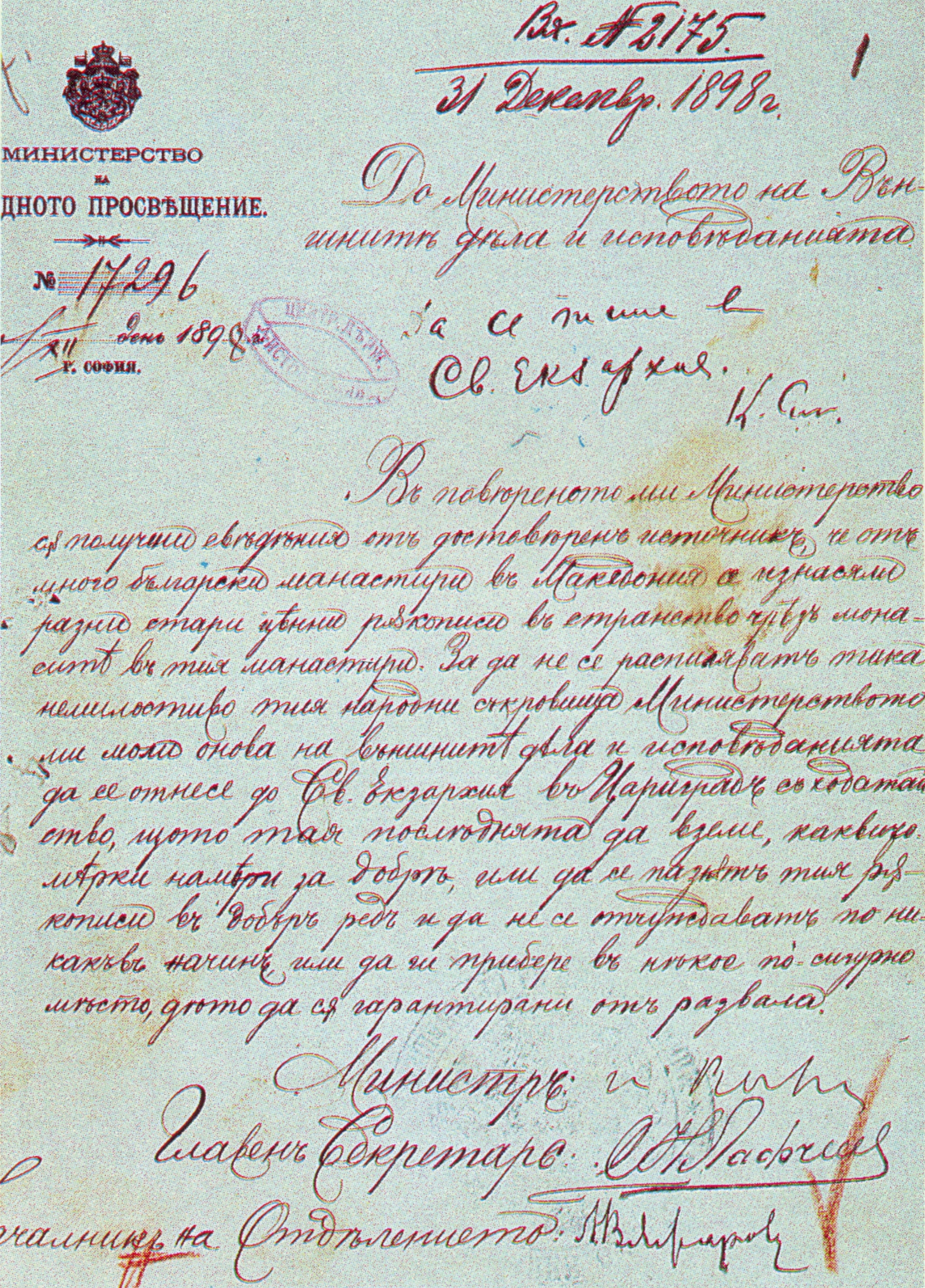 Letter from Ivan Vazov, related to the preservation of the manuscripts in Bulgarian monasteries in Macedonia, 30 December 1878